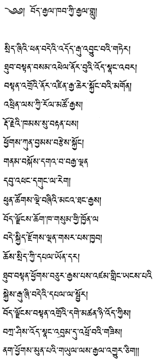 Tibetan national anthem